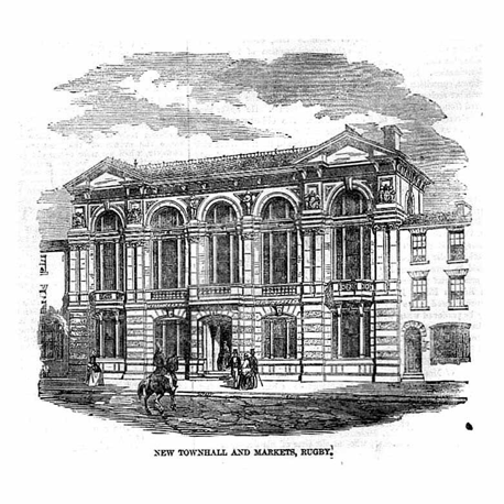 Rugby Town Hall by Bellamy and Hardy 1855